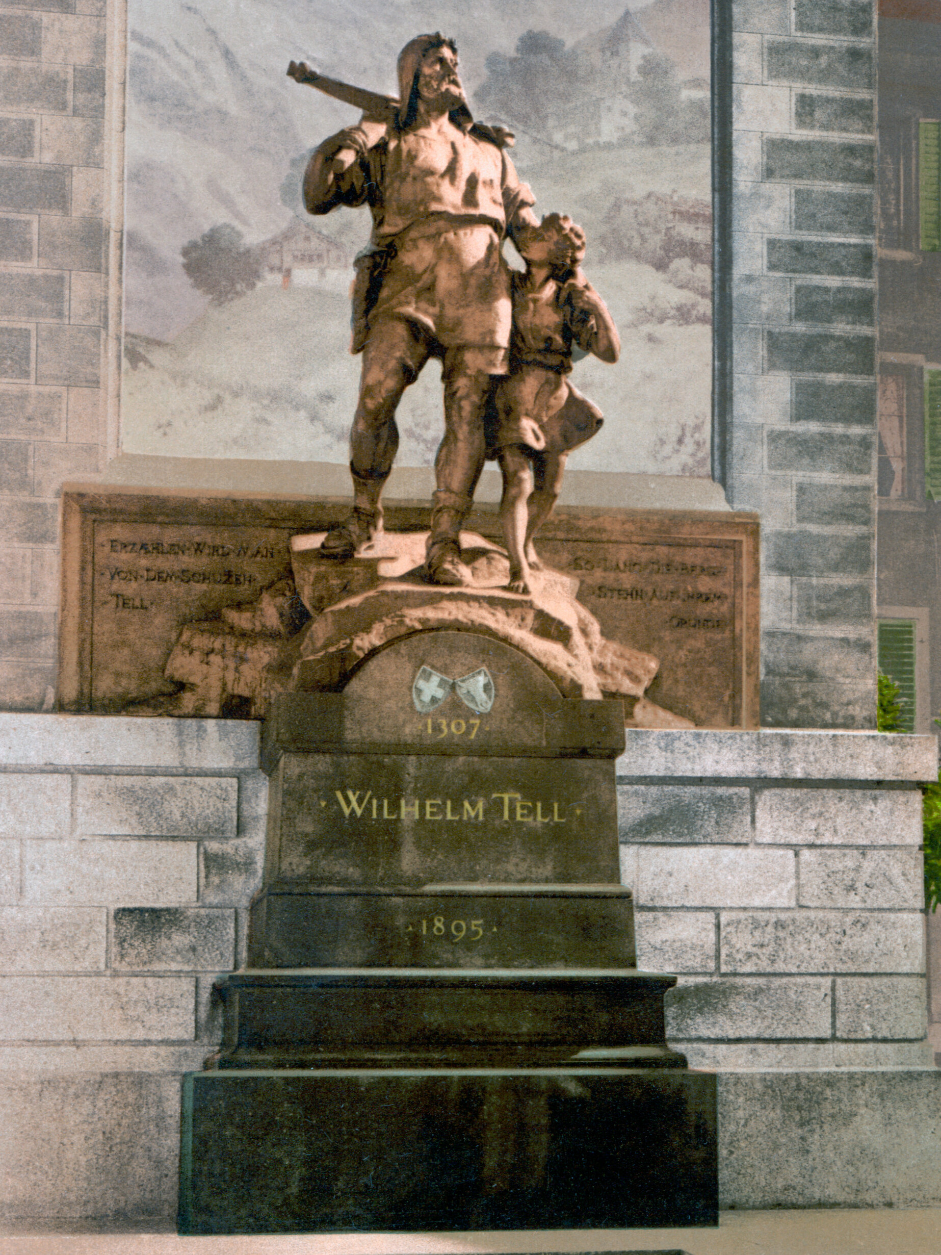 Wilhelm Tell monument in Altdorf, Switzerland, erected 1895. Sculpted by Richard Kissling.